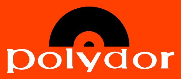 Polydor logo used from 1962 into the 1980s